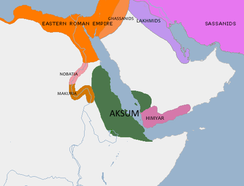 Aksumite Empire at its greatest extent